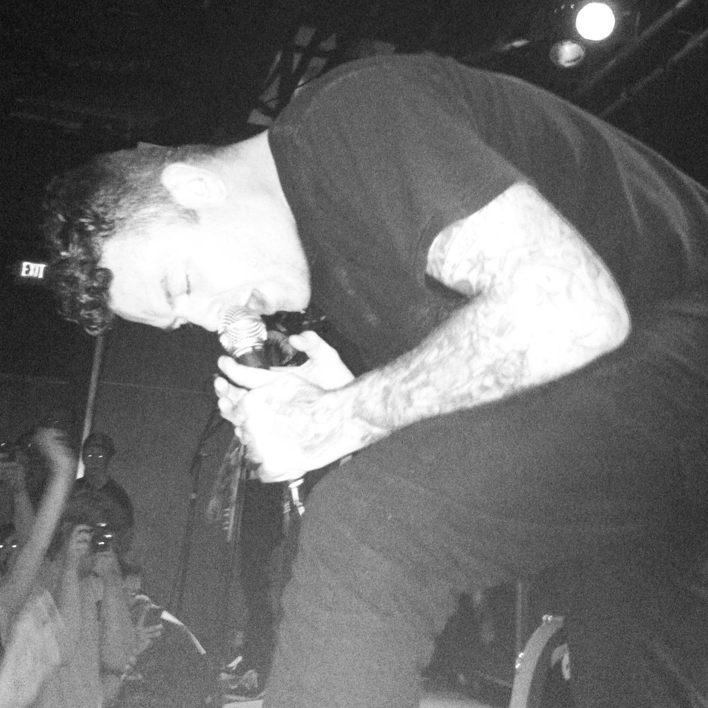 Buddy Nielsen @ The Social in Orlando on 4/10/13